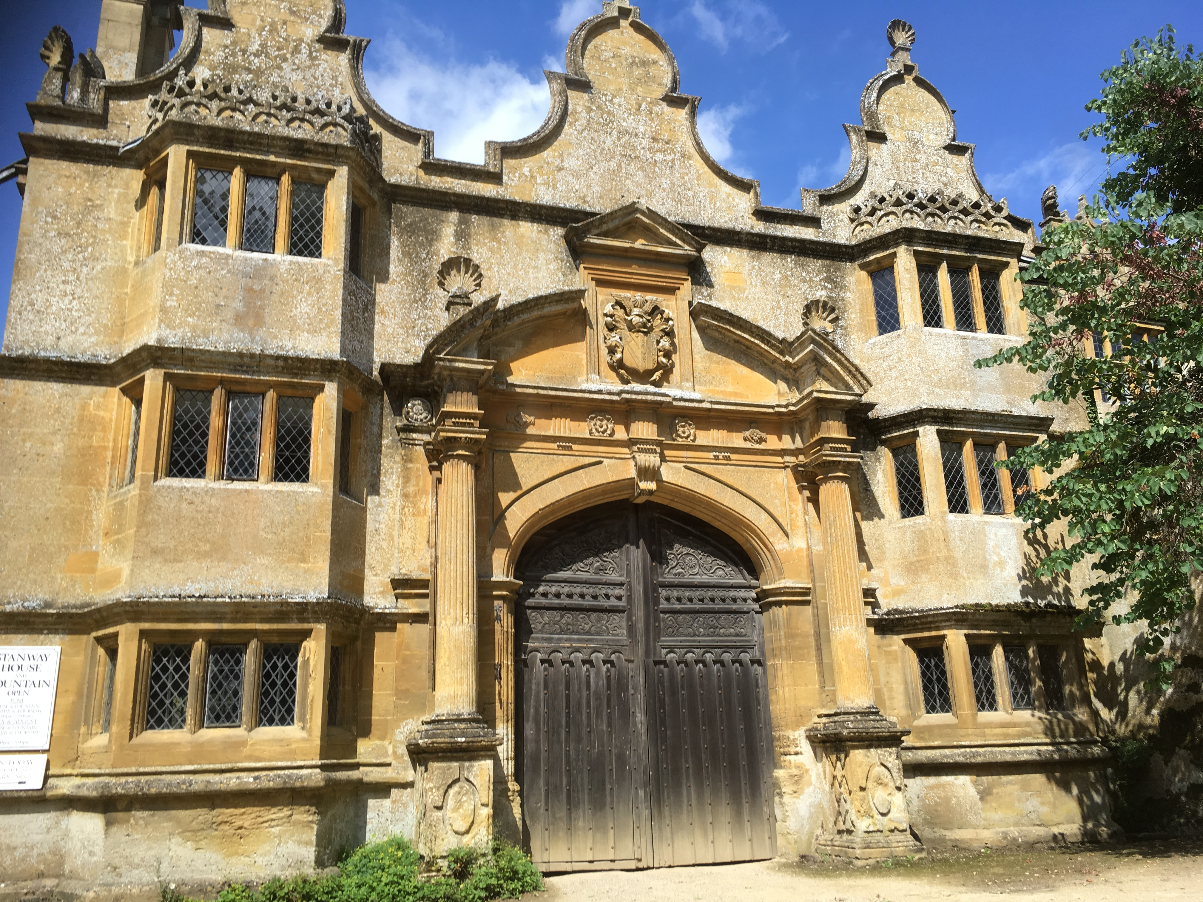 The Stanway House gatehouse was built in about 1630 and forms the entrance to Stanway House - a Jacobean manor house near the village of Stanway in Gloucestershire, England.